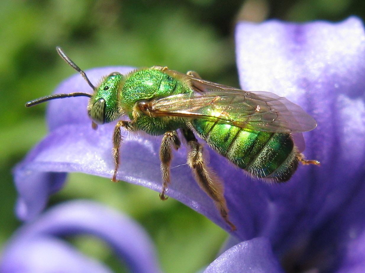 Cultivated plant, Toronto, Canada